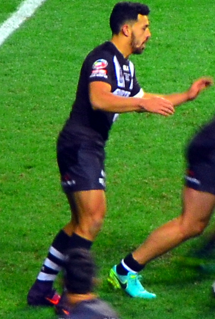 Jordan Kahu